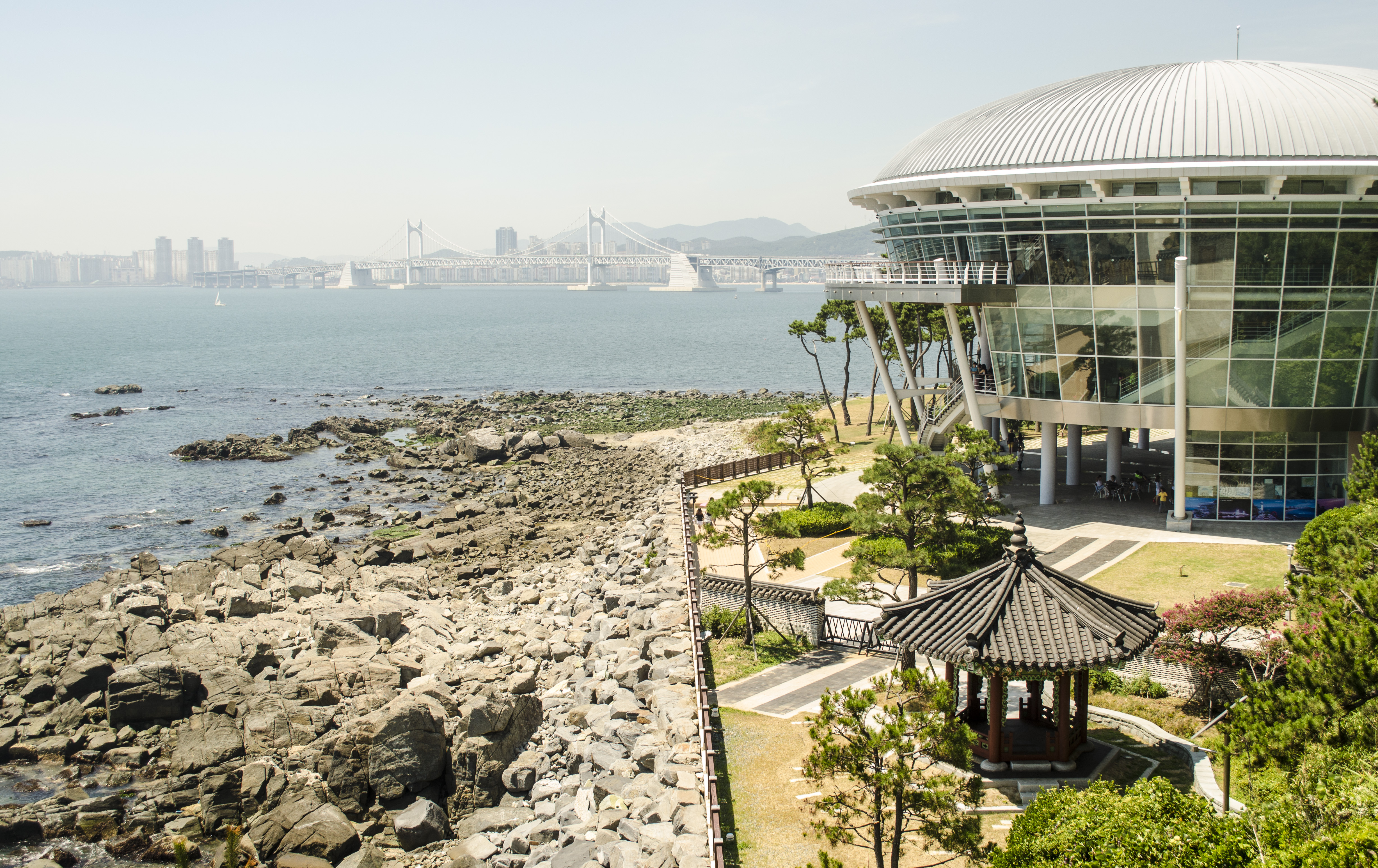 Nurimaru APEC House in Busan, South Korea. Photograph from Flickr; author StephNurnberg; license of cc by 2.0.